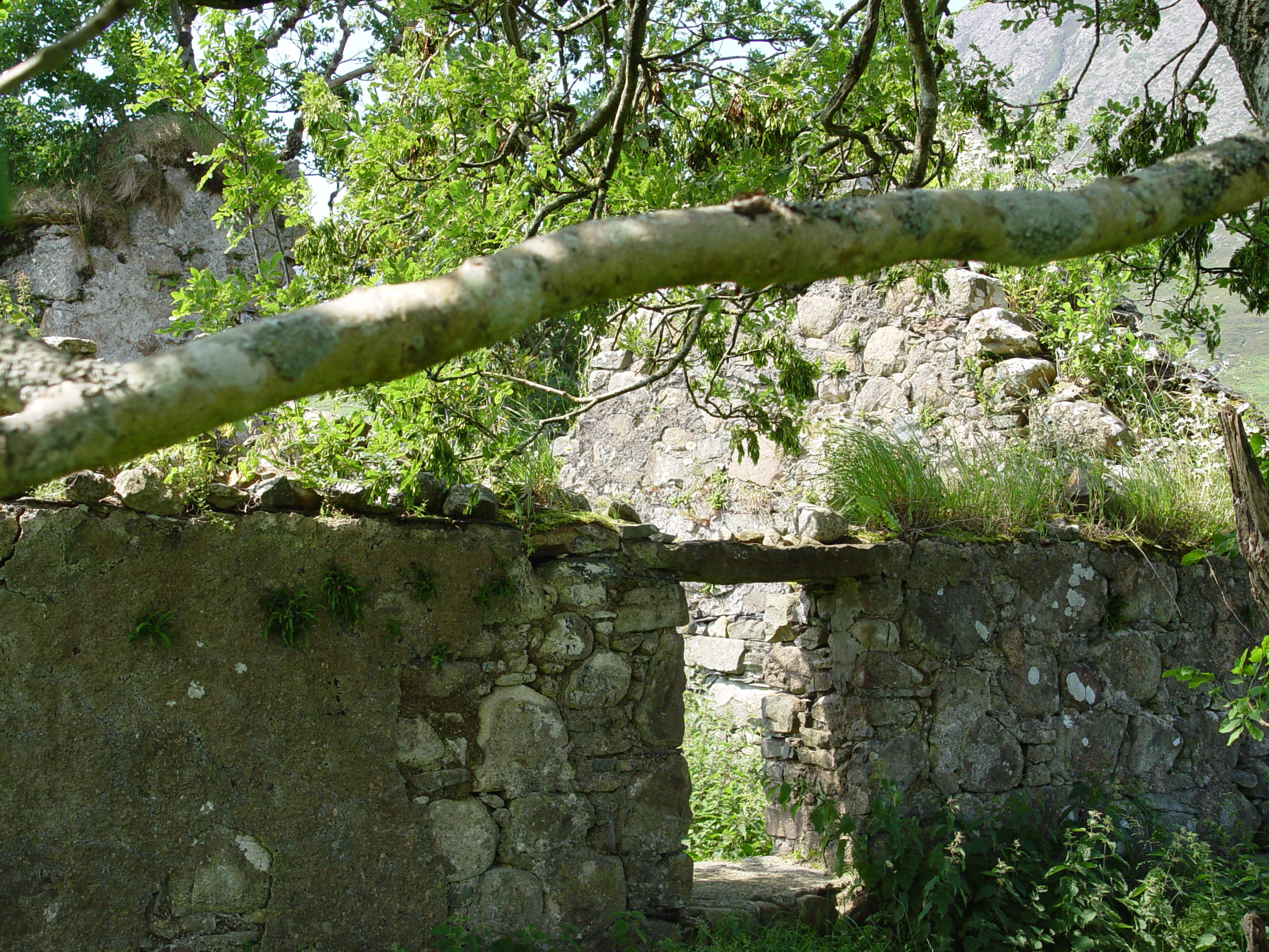 Interior door and room beyond at Corriechatachan, Isle of Skye, Scotland. The 18th century house is now incorporated into a sheep fank. Contemporary descriptions describe it as a fine 2 story structure.